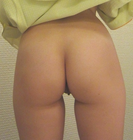 Buttocks of women(japanese)